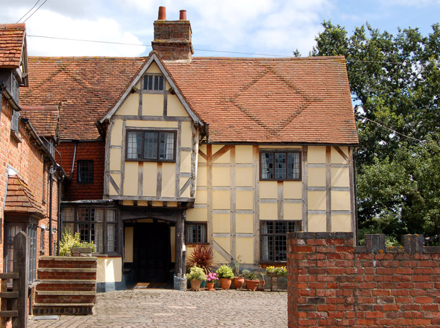 Vale House, Lower Street, Willoughby, Warwickshire